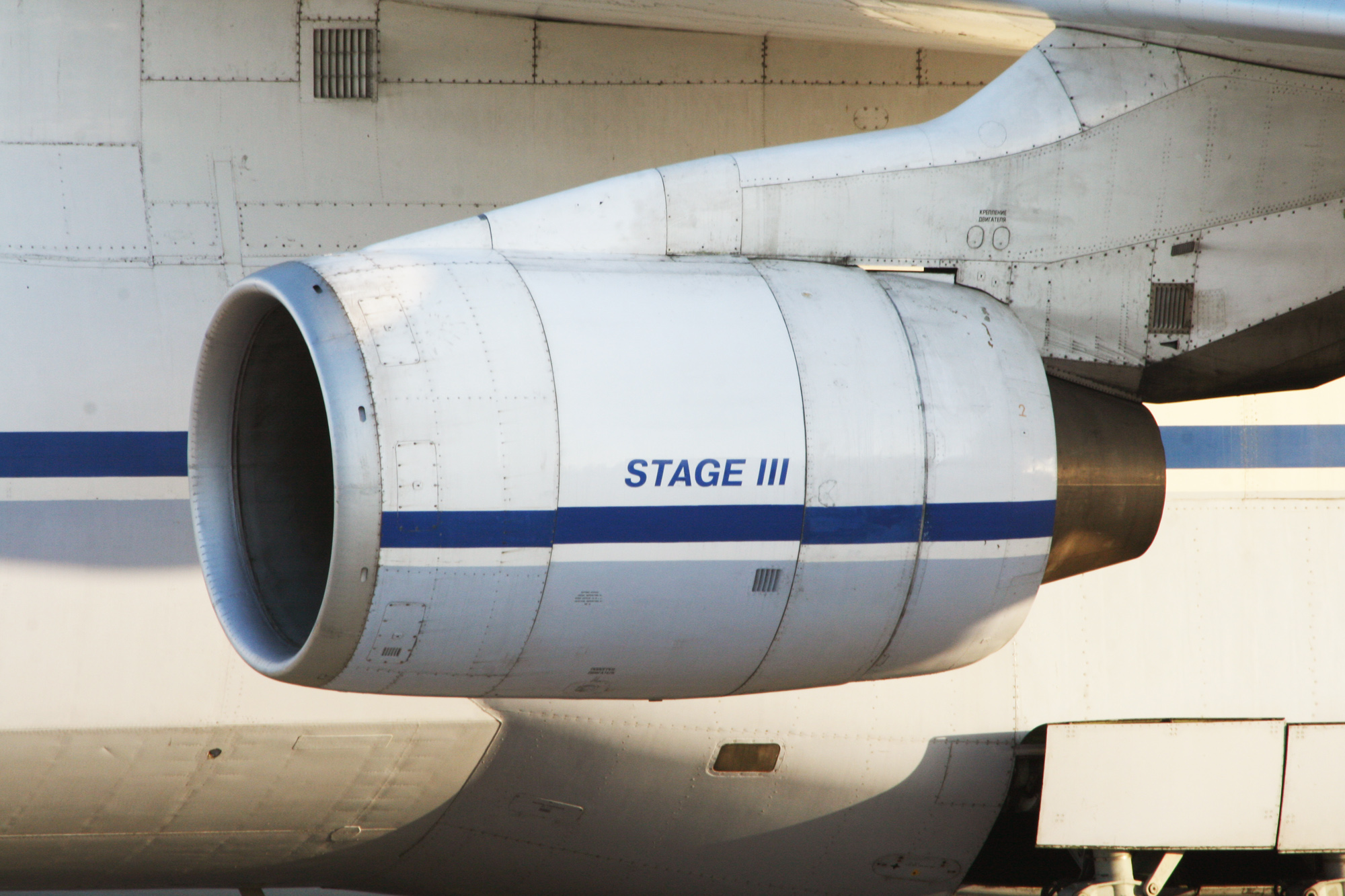 Avión de transporte Antonov An-124-100 Ruslan (UR-82027, antes CCCP-82027) operado por la compañía ucraniana Antonov Airlines, propiedad de Antonov Aeronautical Scientist/Technical Complex (antes Antonov Design Bureau, cuya denominación aún figura en la deriva del aparato). El Ruslan es uno de los aviones de carga más grandes del mundo. Este ejemplar fue fotografiado en el Aeropuerto de Peinador. Vigo (Galicia, España). Antonov An-124 at Vigo Cargo aircraft Antonov An-124-100 Ruslan (UR-82027, before CCCP-82027) operated by the Ukrainian company Antonov Airlines, owned by Antonov Aeronautical Scientist / Technical Complex (before Antonov Design Bureau, whose name still appears in the drift of this unit). The Ruslan is one of the largest cargo aircraft in the world. This aircraft was photographed at the Airport of Peinador. Vigo (Galicia, Spain).